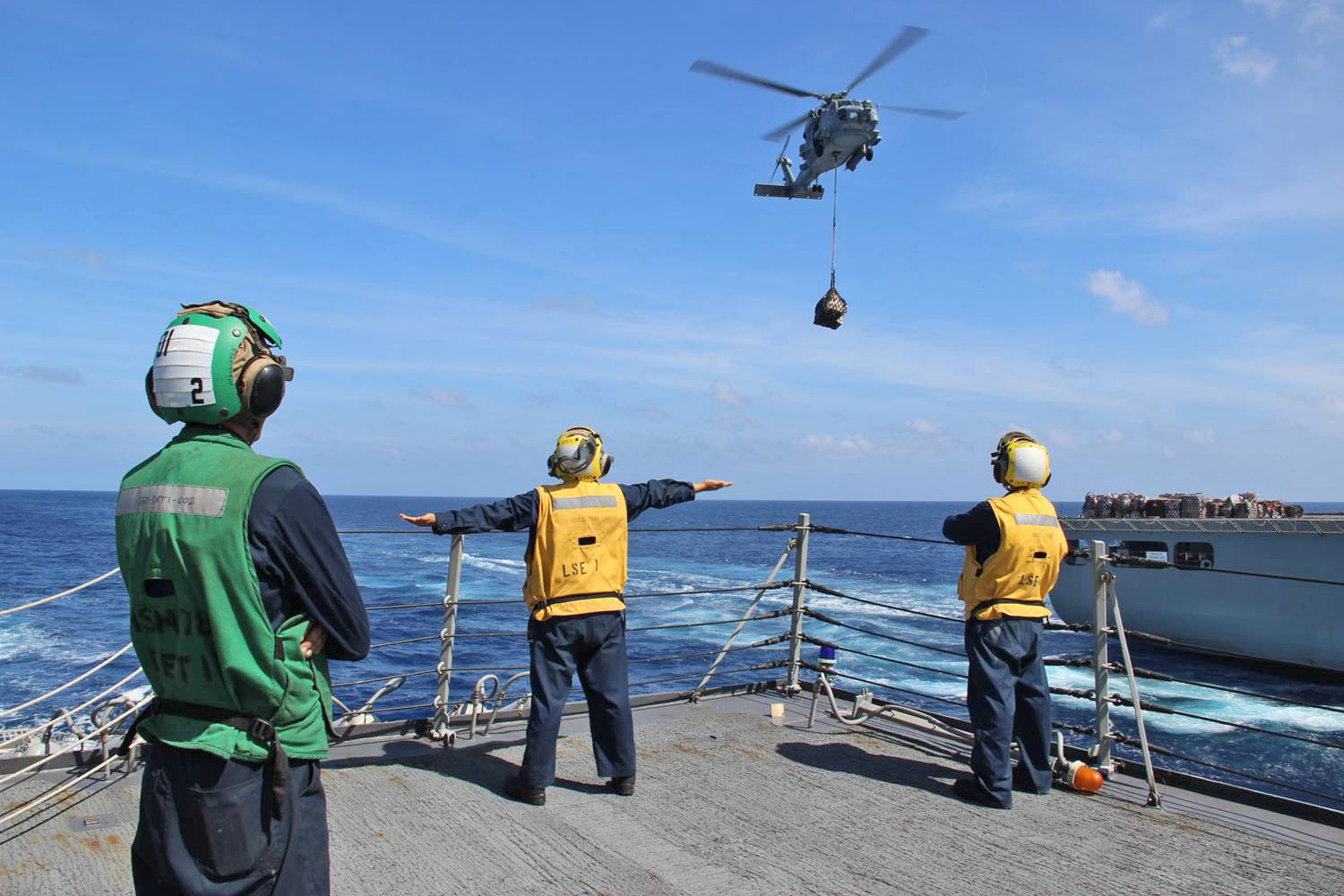 U.S. Sailors use direct helicopter operations on the guided missile destroyer USS Kidd (DDG 100) in the Andaman Sea March 17, 2014. U.S. Navy ships and aircraft were dispatched to assist a multinational search for Malaysia Airlines Flight 370, which disappeared March 8, 2014, over the Gulf of Thailand with 239 people aboard.